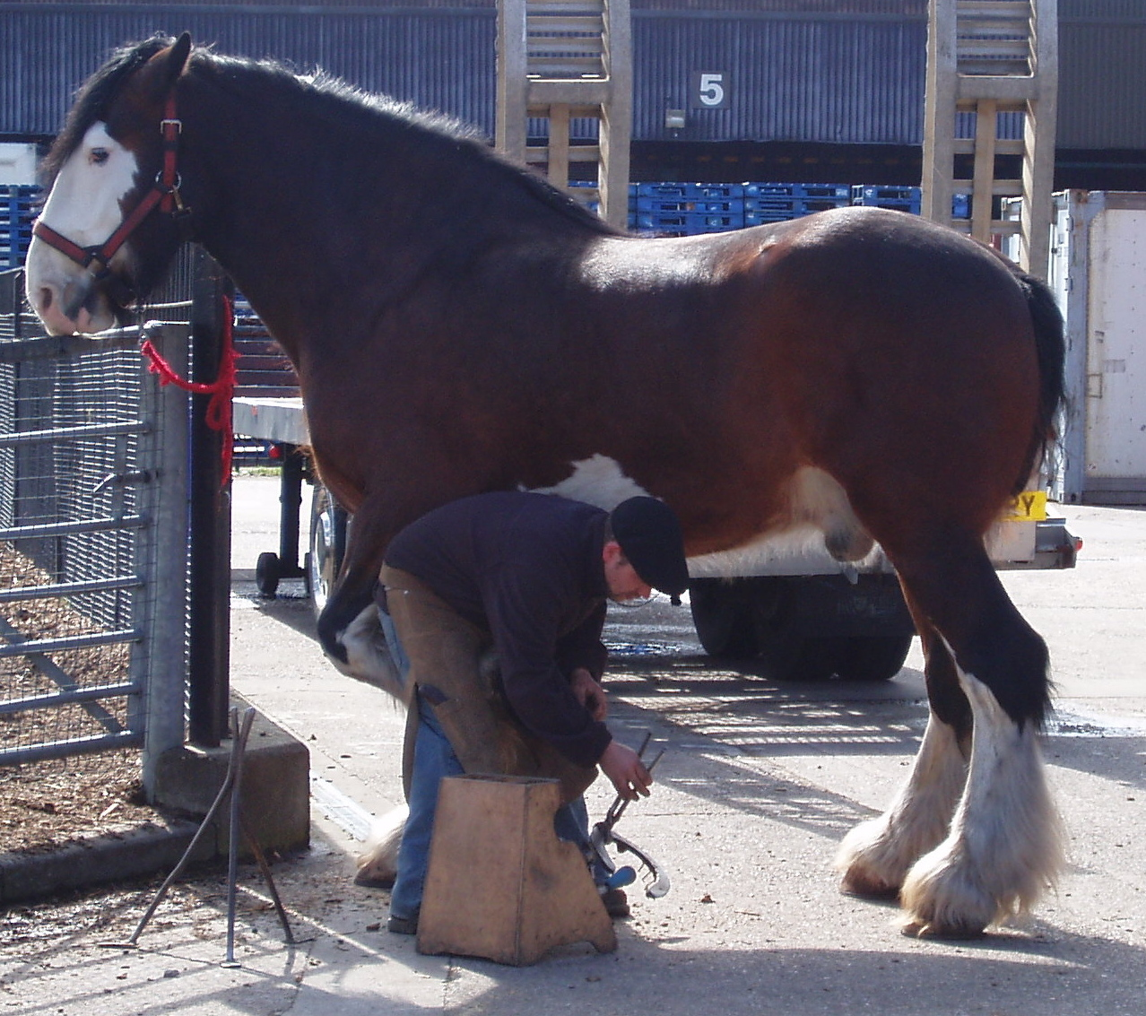 One of the Brewery Shire Horses at the Bass Museum Burton on Trent having his feet trimmed.